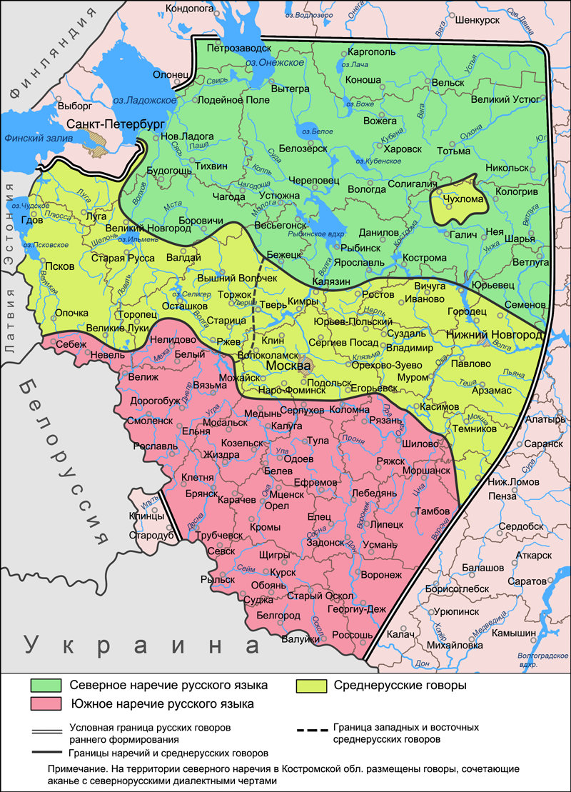 Map of Russian dialects (in Russian, only "primary territory" shown) Green - Northern Russian Light green - Central Russian Red - Southern Russian